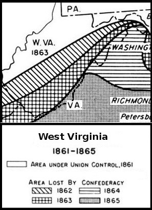 The map was created by the US Army for a history of the American Civil War and it has been reduced to show only the section of Virginia that became the state of West Virginia in 1863.